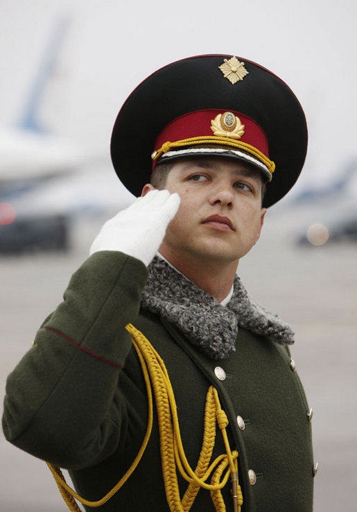 President G. W. Bush in Kiev